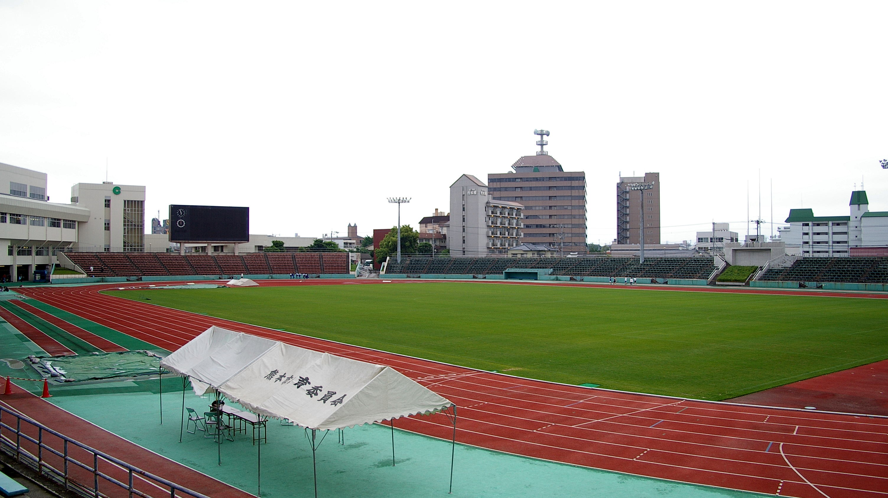 Suizenji Athletic Stadium in Kumamoto City, Kumamoto Prefecture, Japan